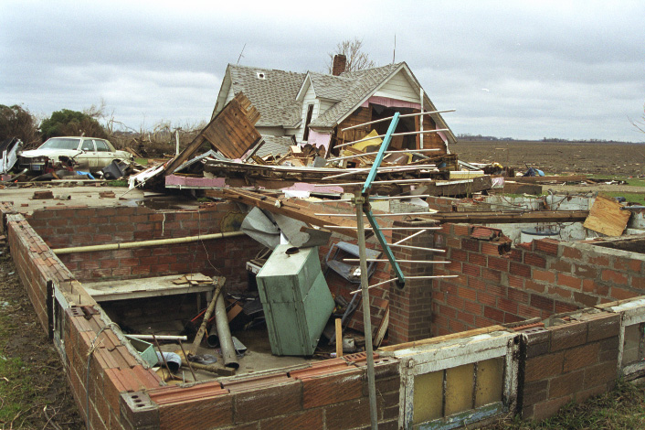 Tornado damage in Brown County, Minnesota